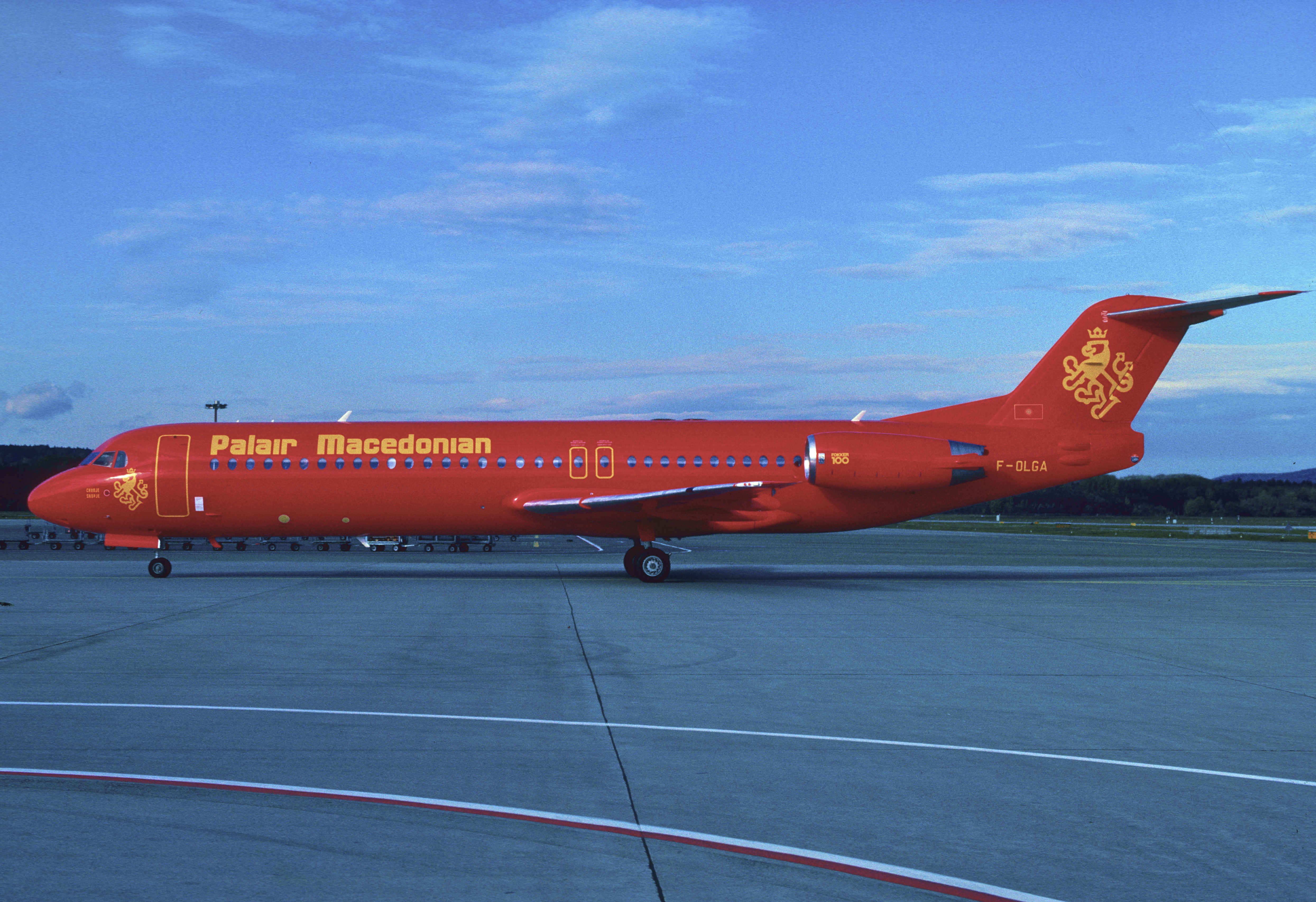 First flight: August 24, 1990 (c/n 11290) 01/10/1993 Palair Macedonian F-OLGA 07/12/1996 TAM PT-MRZ 22/04/2004 EU Jet EI-DFB ceased operations July 27, 2005 27/02/2006 Régional F-GPXL stored 05/2010